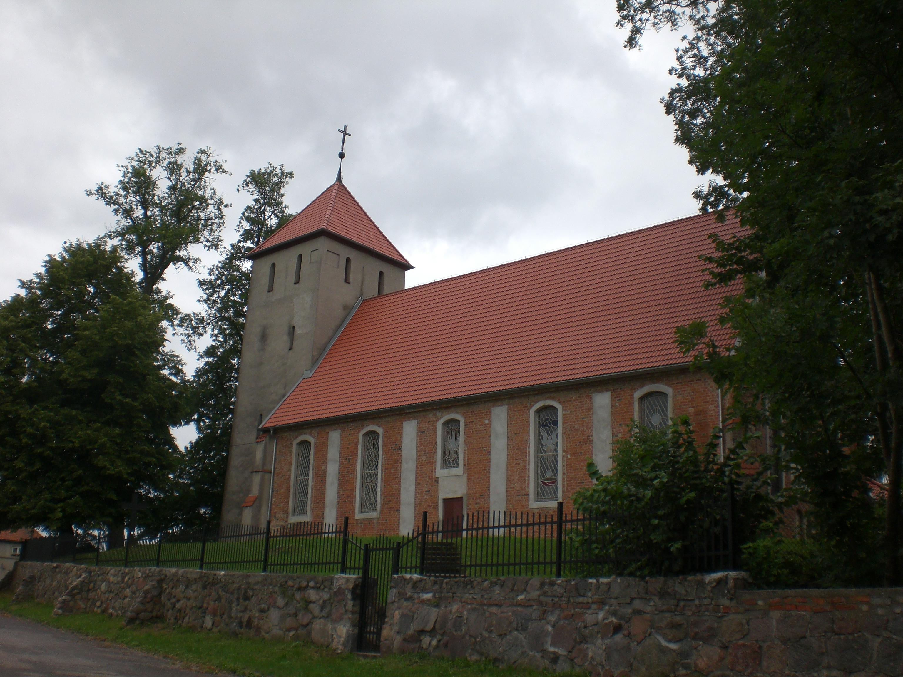 Budowo - Virgin Mary Queen of Poland church (bd. 13/14 century)